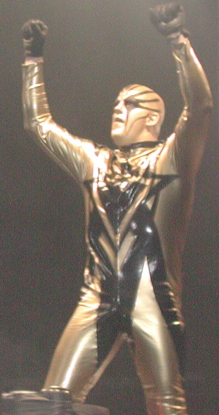 Goldust Allstate Arena Rosemont, IL September 12002.